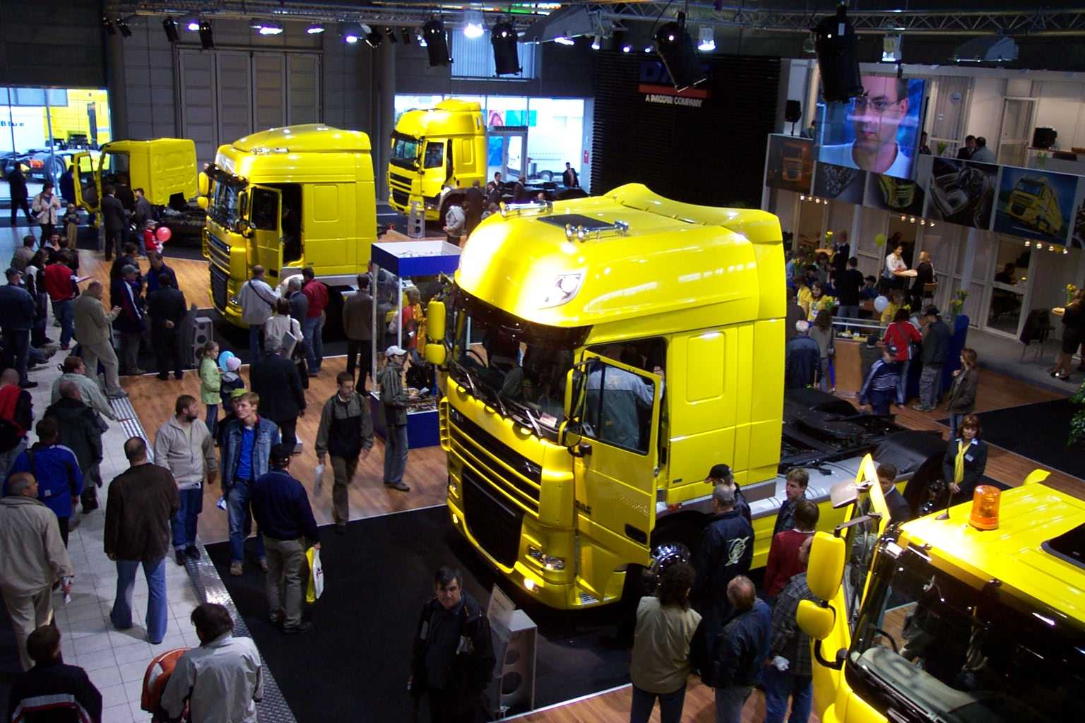 DAF XF trucks at Autotec trade fair at Brno.